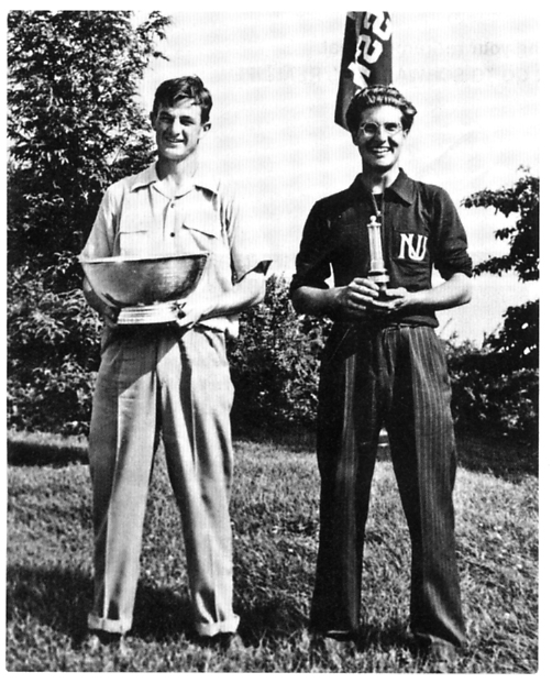 NCAA'42 Championship. Runnerup. Winner "Sandy" Tatum (left). 2nd Manuel de la Torre.